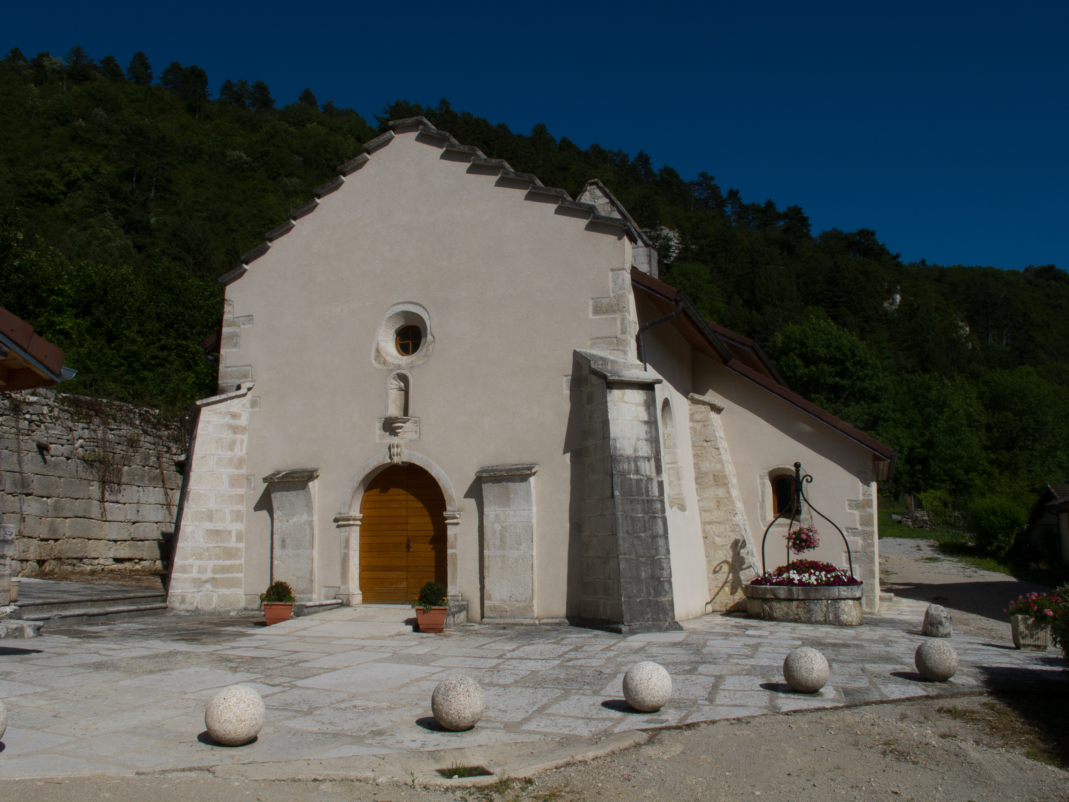 Lect Chapel, Jura, France, 14th century